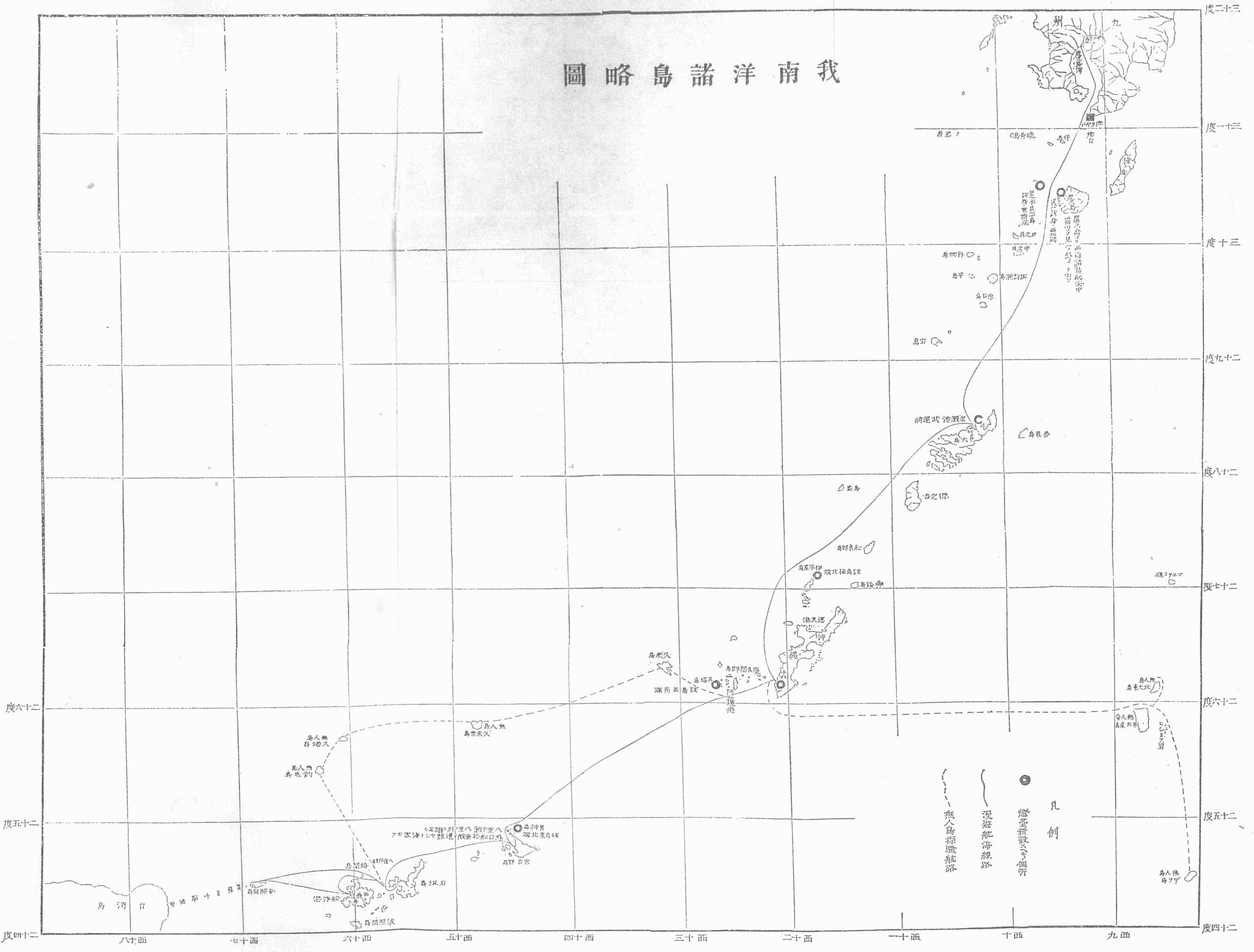 Map of Nanyō Islands, later Nansei Islands.